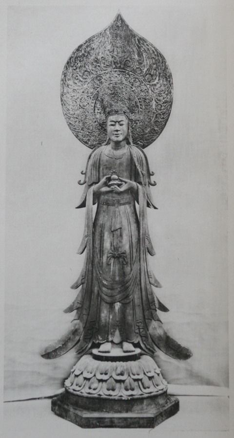 Kannon(Avalokitesvara) or Guze Kannonn, wood plated with gold, crown: bronze openwork gilt. early ACE 7th centuiry, body height 180 cm, crown height 30cm, Halo height 111cm pedestal height 33.5cm, in YUMEDONO Papillion, Horyuji , Ikaruga, Nara, Japan, Japan